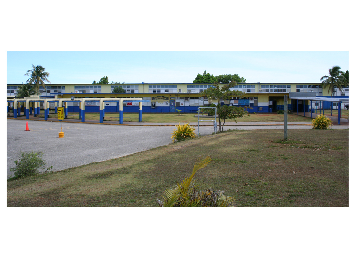 Vicente S.A. Benavente Middle School - Dededo Middle School was renamed Vicente S.A. Benavente Middle School on February 10, 1999. Sheila Tyquiengco/Guampedia